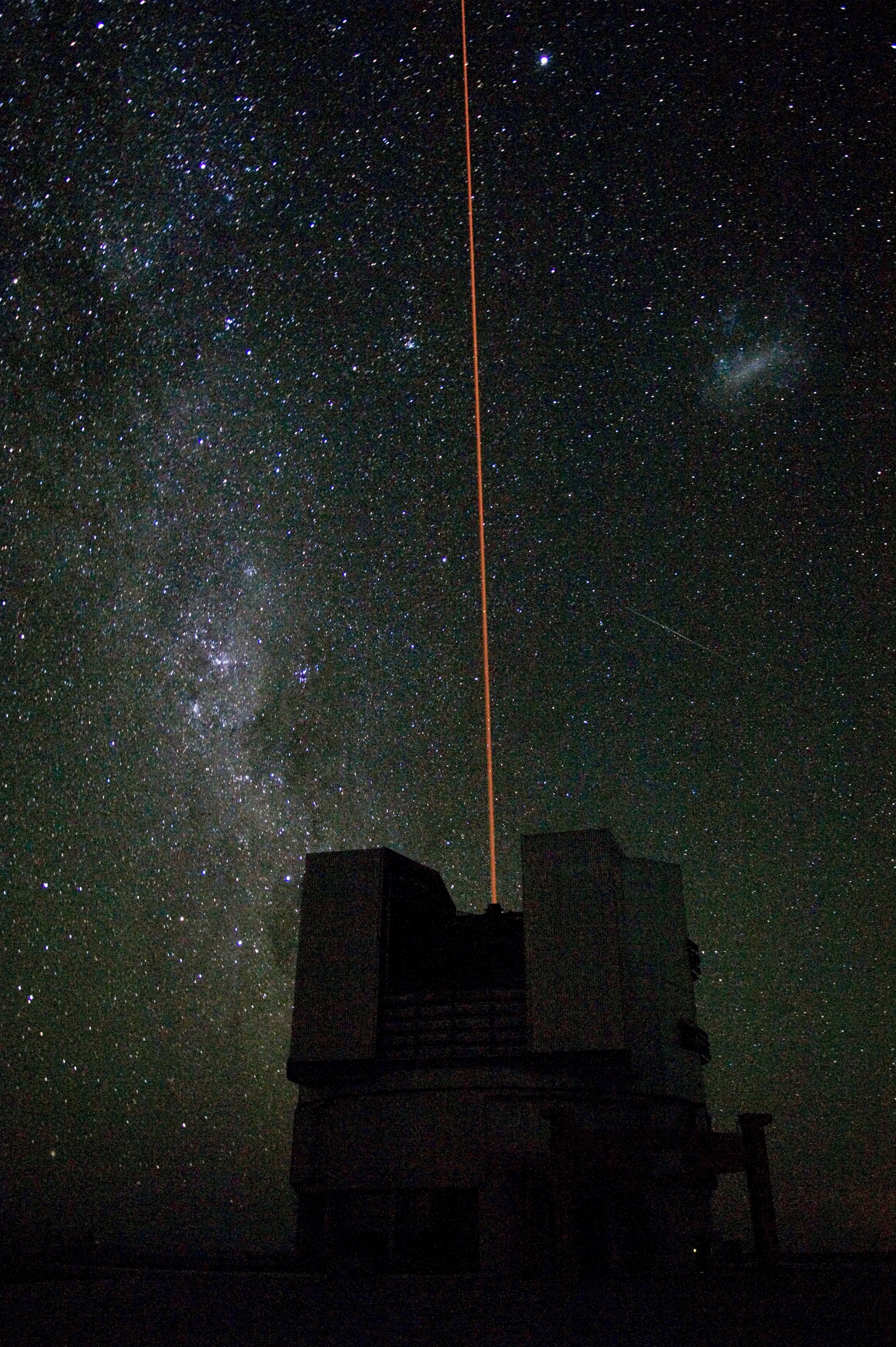 First light of the laser guide star system installed at the Very Large Telescope (European Southern Observatory), in northern Chile.